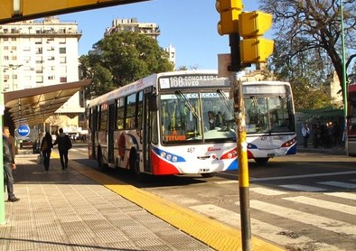 Metalpar Iguazú II bus (#467) with Mercedes Benz chassis in Buenos Aires, Argentina. Colectivo, line 168 (X90), owned by E.S.I.S.A. (operated by La Nueva Metropol S.A.).